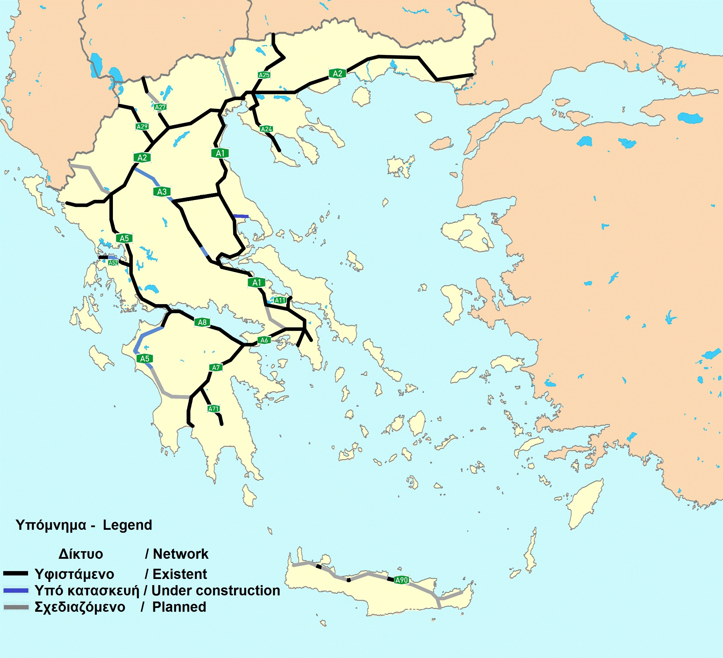 Updated map